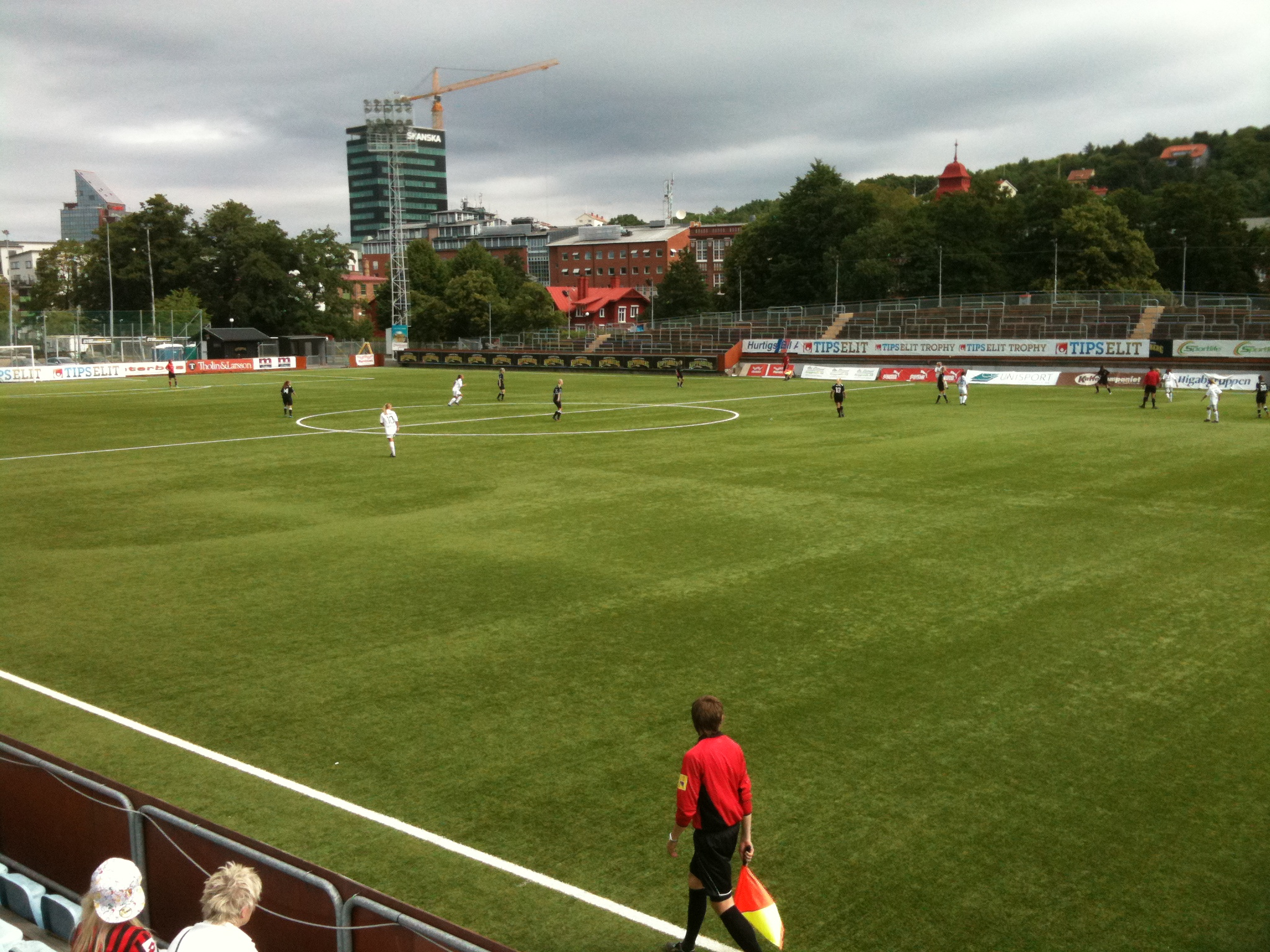 Footballgame at Valhalla IP in Gothenburg, Sweden.